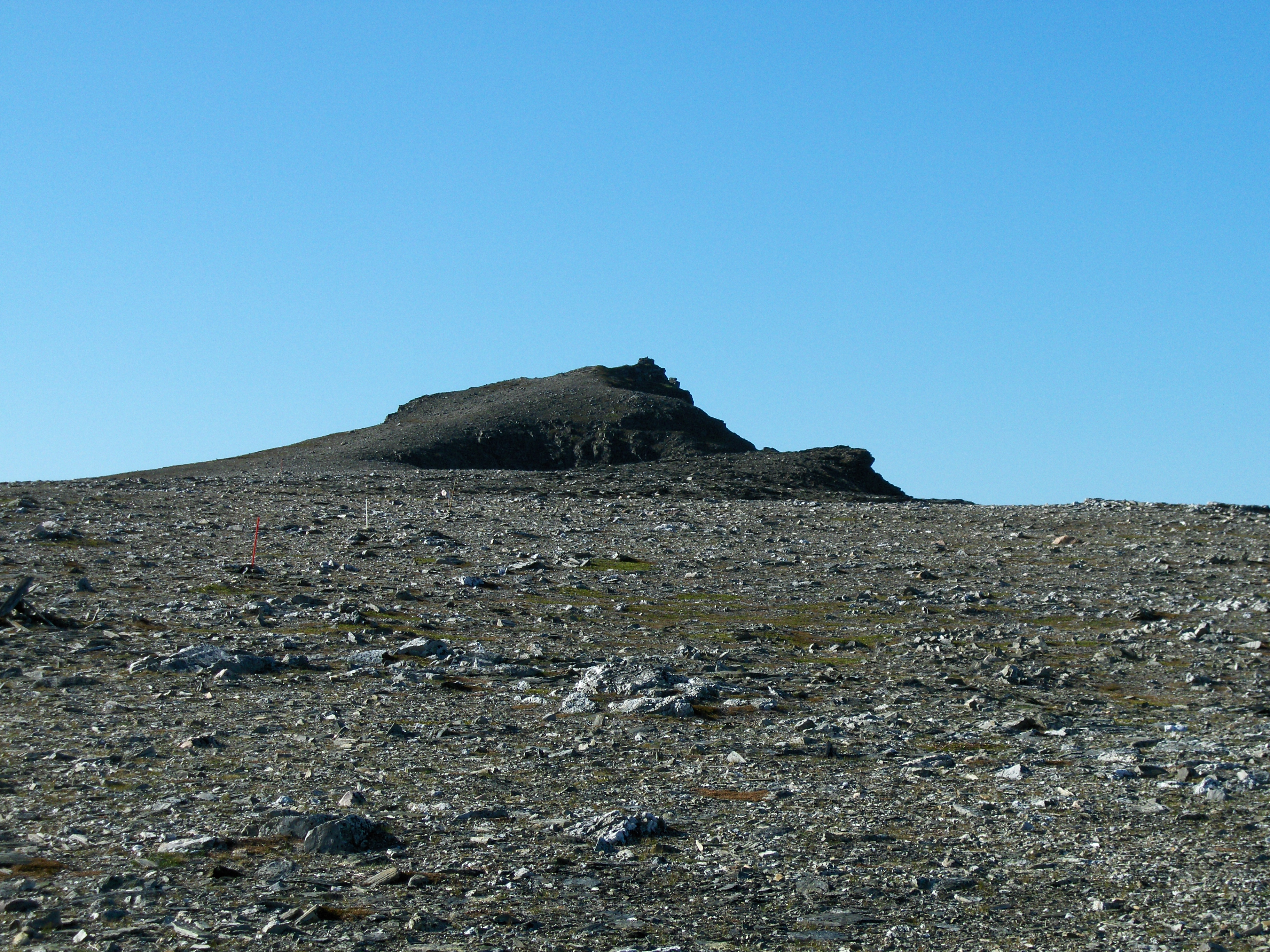 Tanahorn mountain in Berlevåg, Norway. Original description: Tannahorn, the place were I'm went out because of the powerful wind...